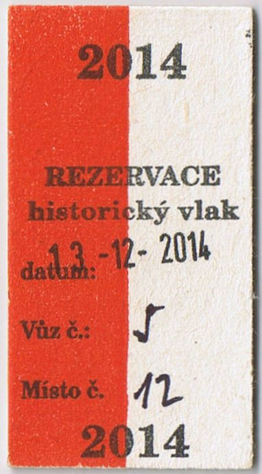 A seat reservation ticket for a nostalgic train Křivoklát.